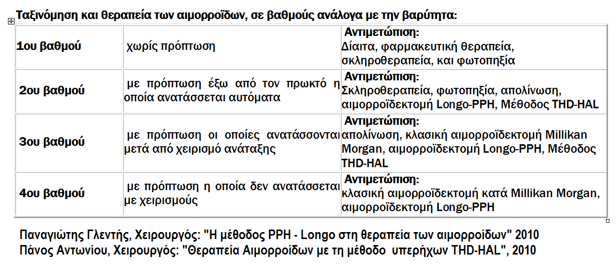 Hemorrhoids treatment per grade